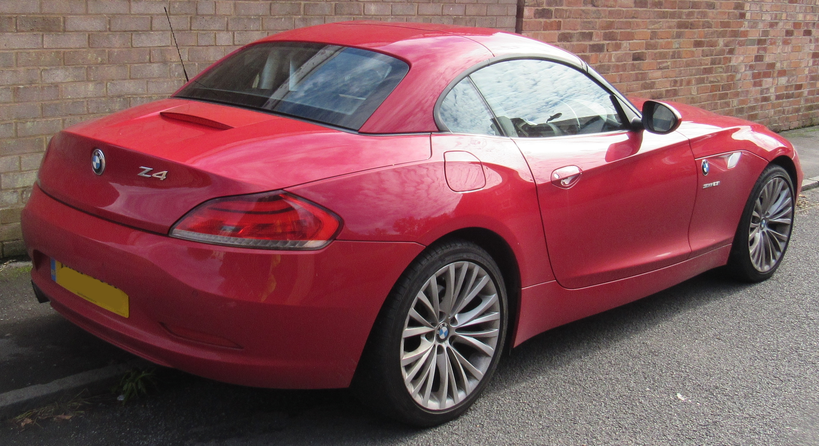 2009 BMW Z4 sDrive 23i 2.5 Rear Taken in Leamington Spa